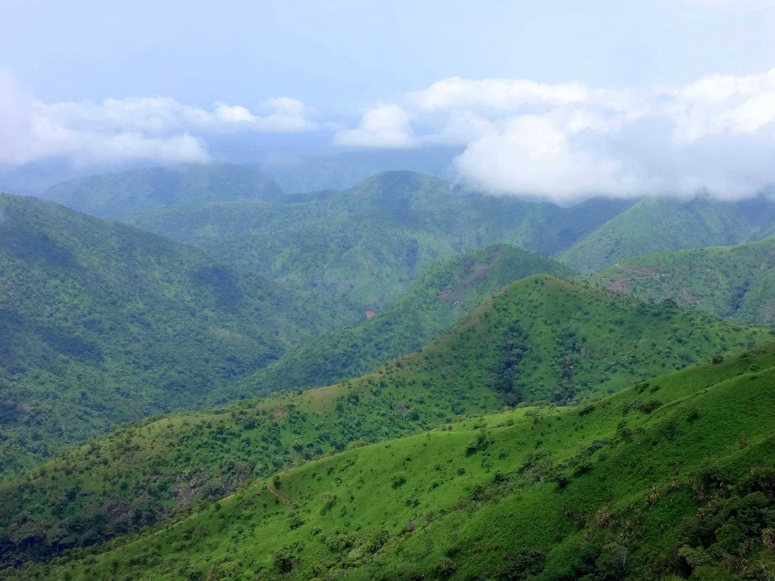 Fair-weather clouds cast soft shadows on Obudu mountains on a sunny day. On the centre left is part of the winding road that leads up Obudu plateau.